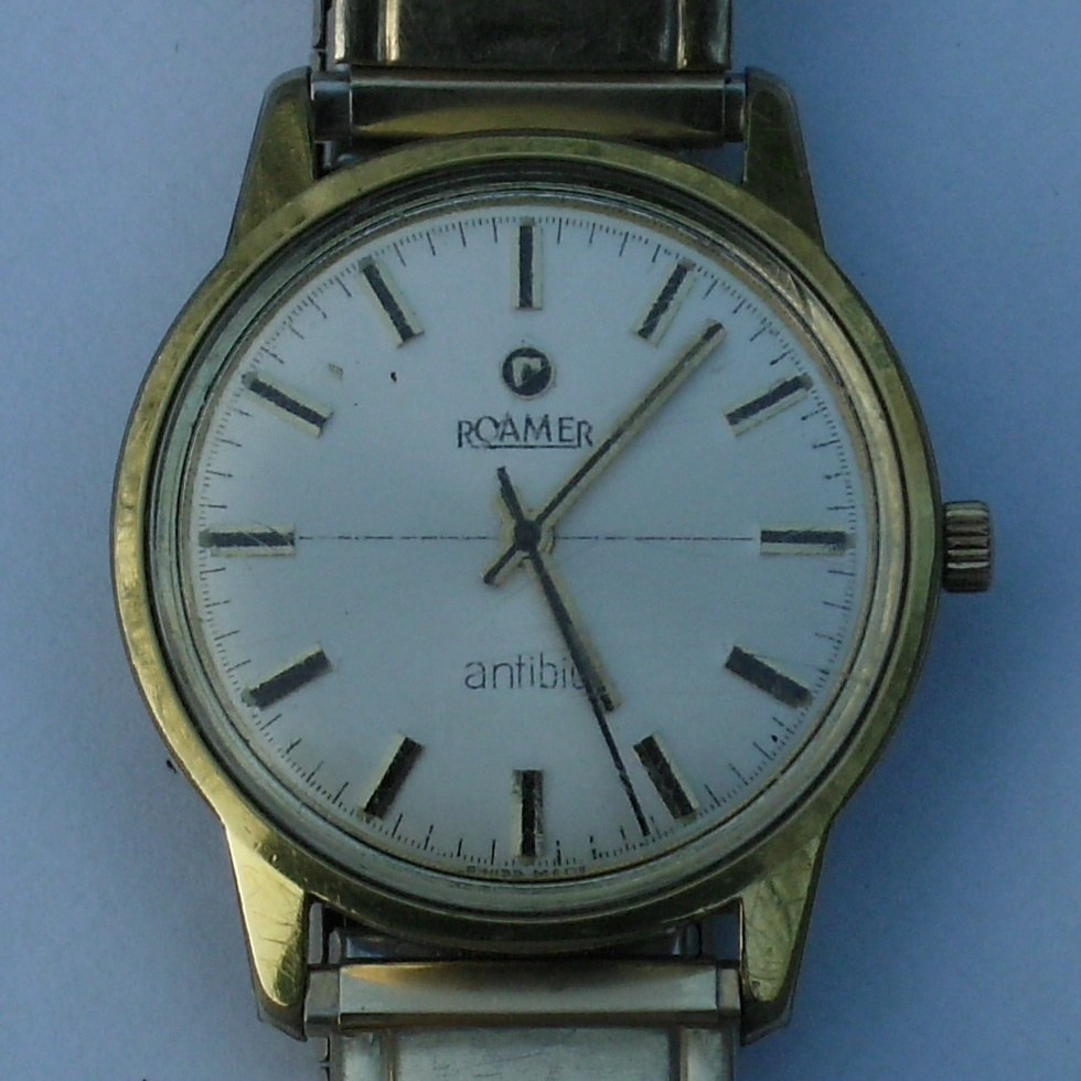 A Roamer Anfibio 414 watch, made in late 1960s or early 1970s (not the original strap). It has a gold plated front and a stainless steel back.